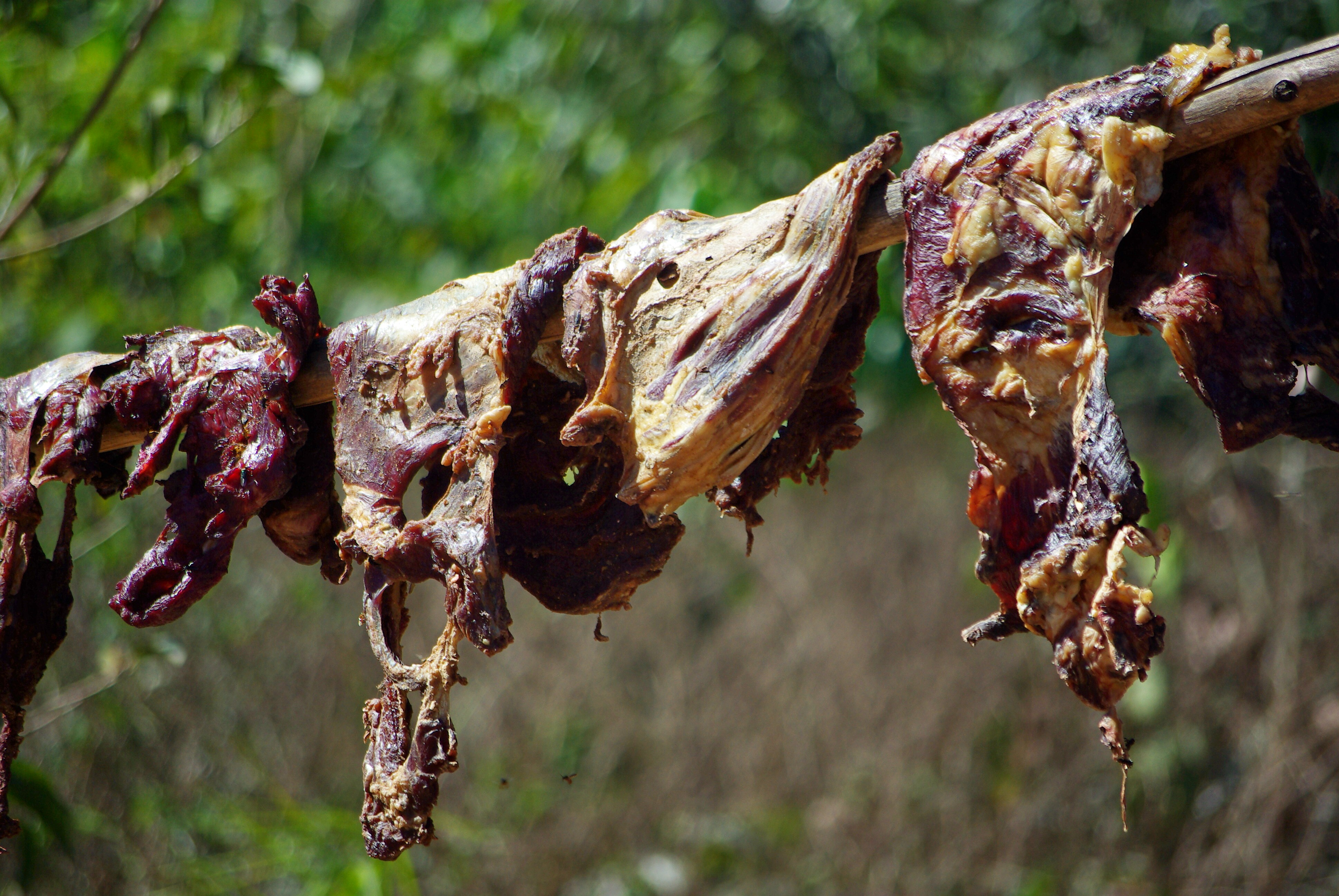 Meat being dried outdoors, Maranhão Brazil.